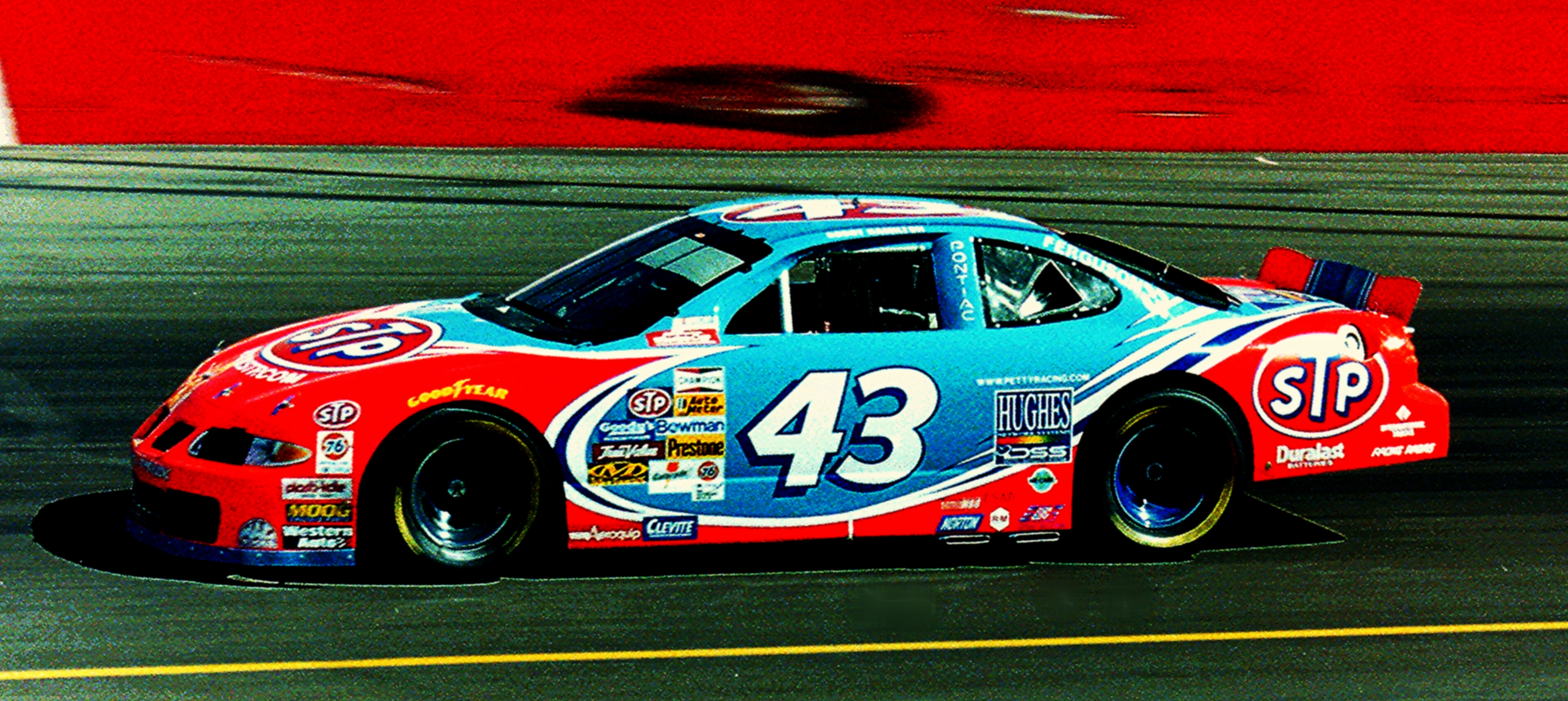 Bobby Hamilton drives his car at Phoenix International Raceway.